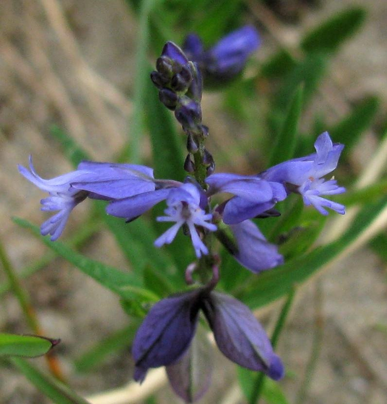 Common Milkwort (Polygala vulgaris) on Harlech golf course SSSI